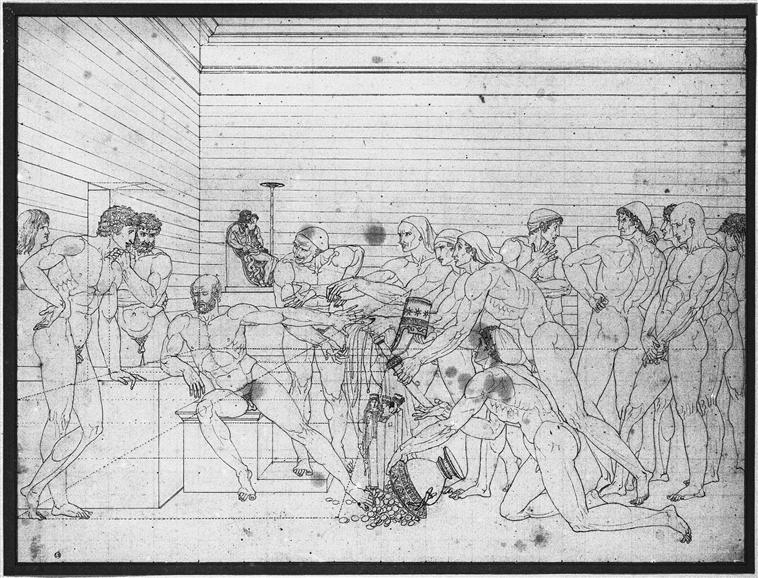 Hippocrates Refusing the Gifts of Artaxerxes